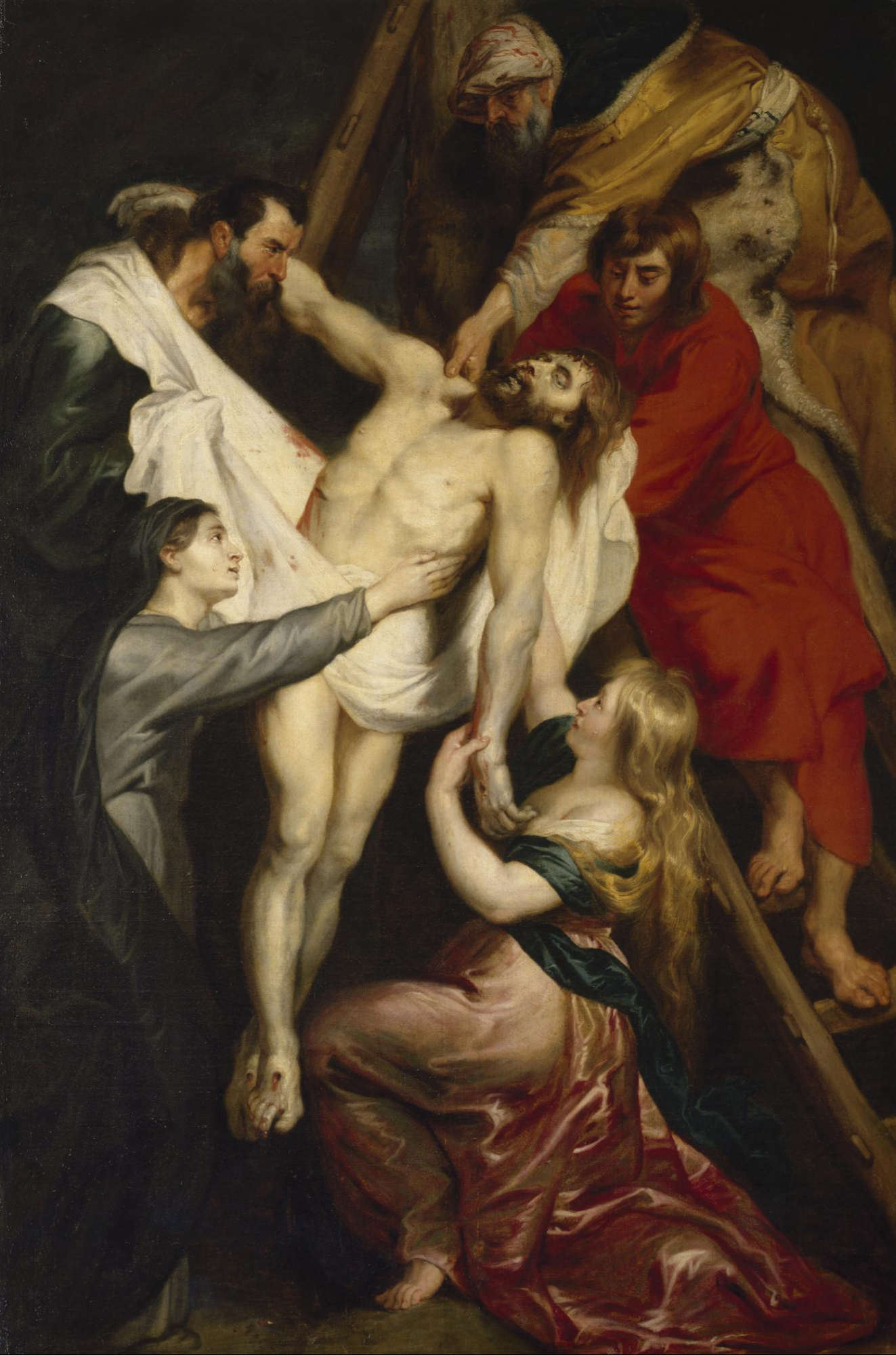 Peter Paul Rubens (1577-1640), Descent from the Cross, ca. 1617-18 St. Petersburg, Hermitage